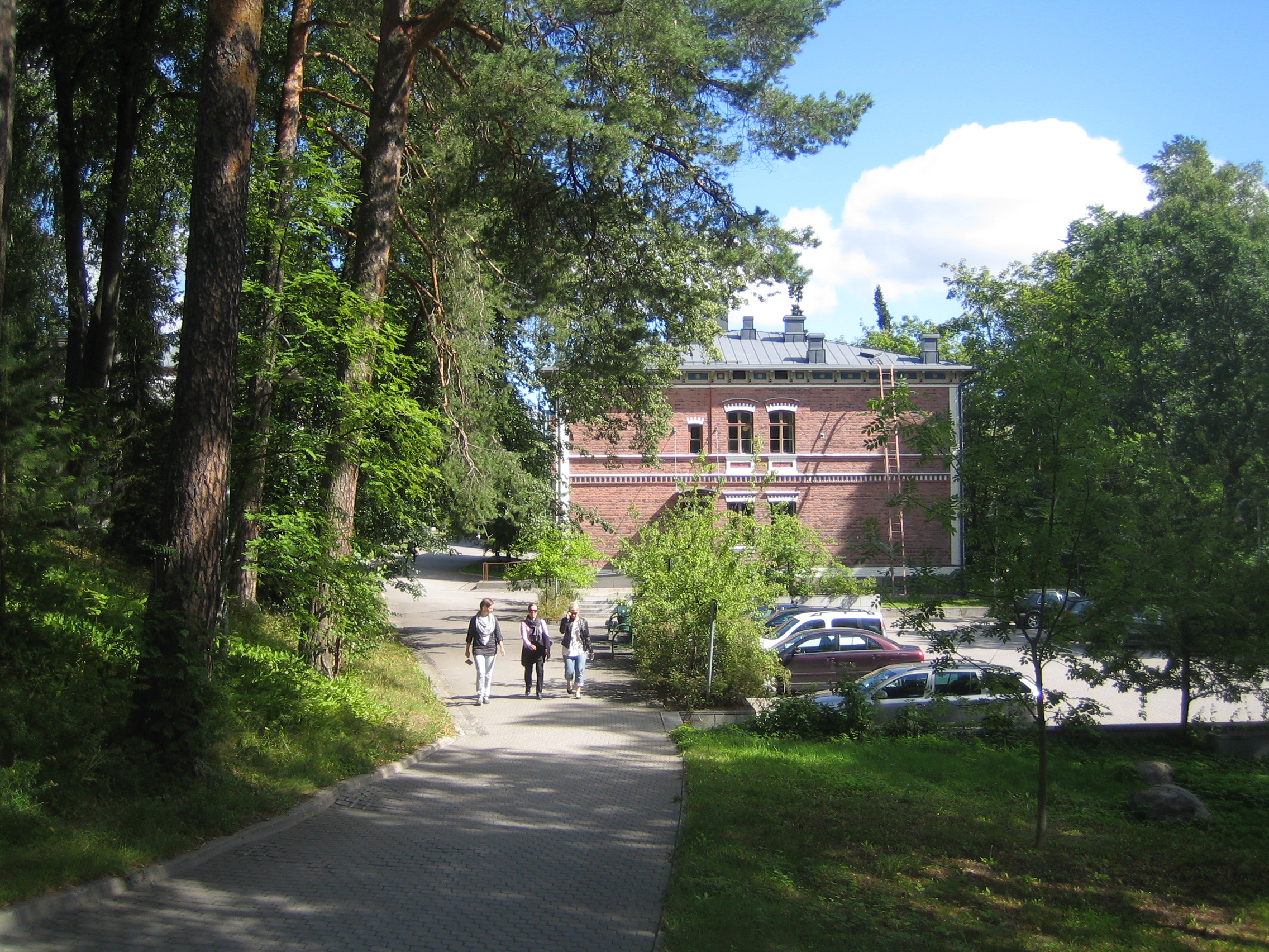 O Building (Oppio, The language center), University of Jyväskylä, Finland